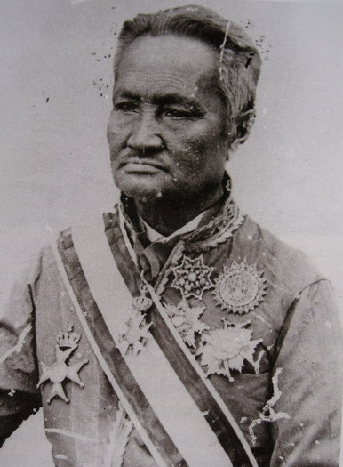 Photograph of Somdech Chao Phraya Sri Suriyawongse (Chuang Bunnag)